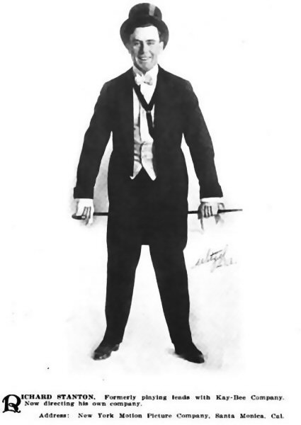 Actor and director Richard Stanton.